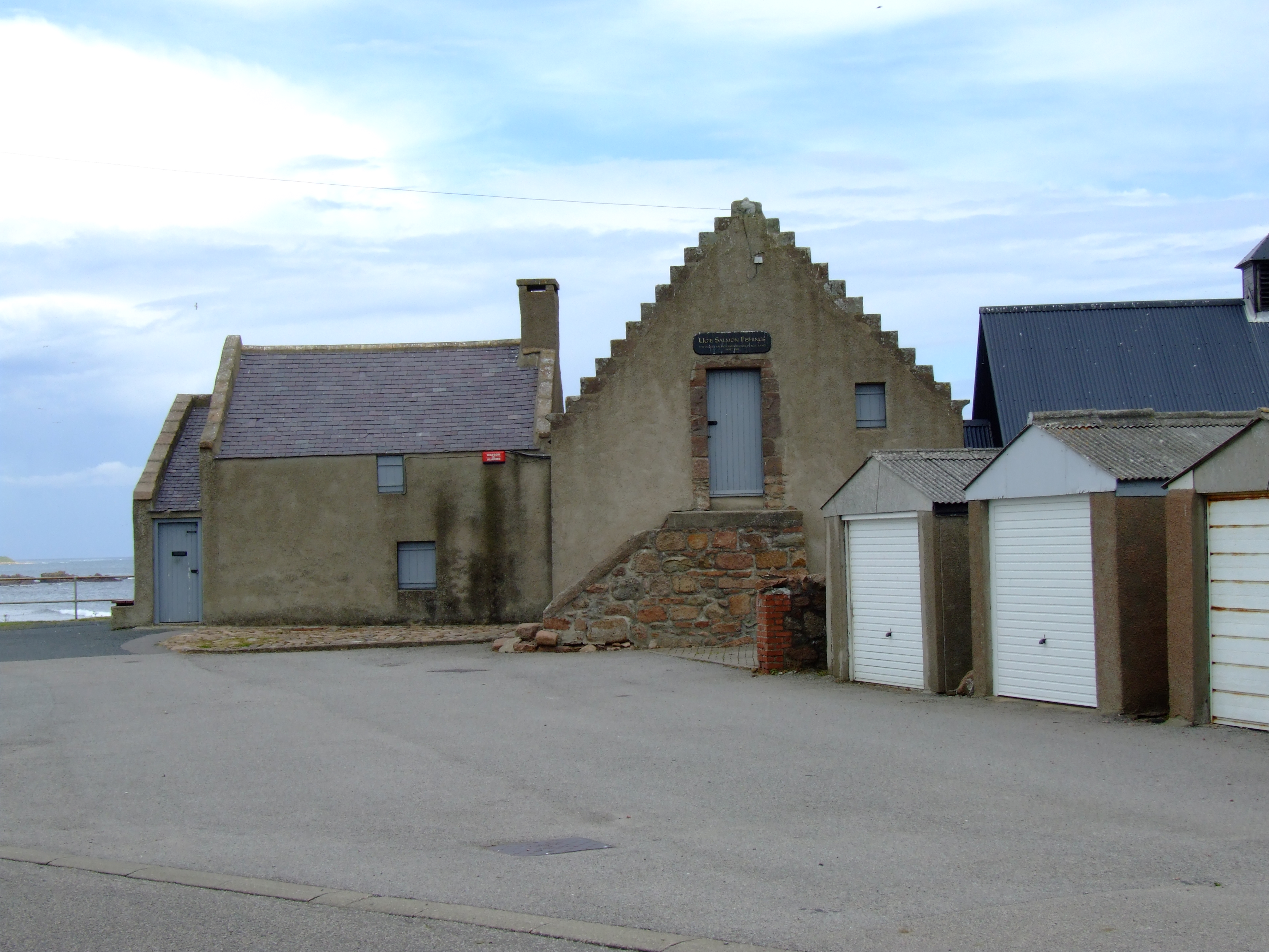 Salmon Smoke House, Peterhead, Scotland.